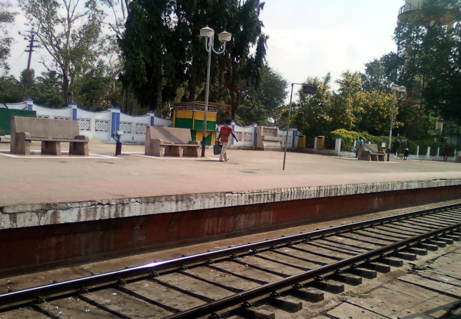 Vizianagaram Train Station, Andhra Pradesh